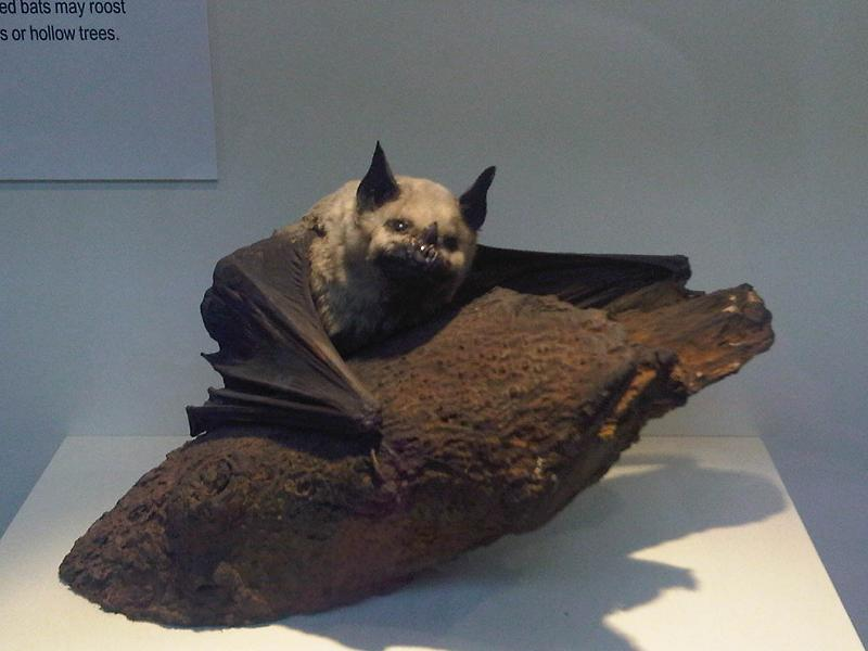 Taxidermied Greater Spear-nosed Bat (Phyllostomus hastatus) at the Natural History Museum in London, England.